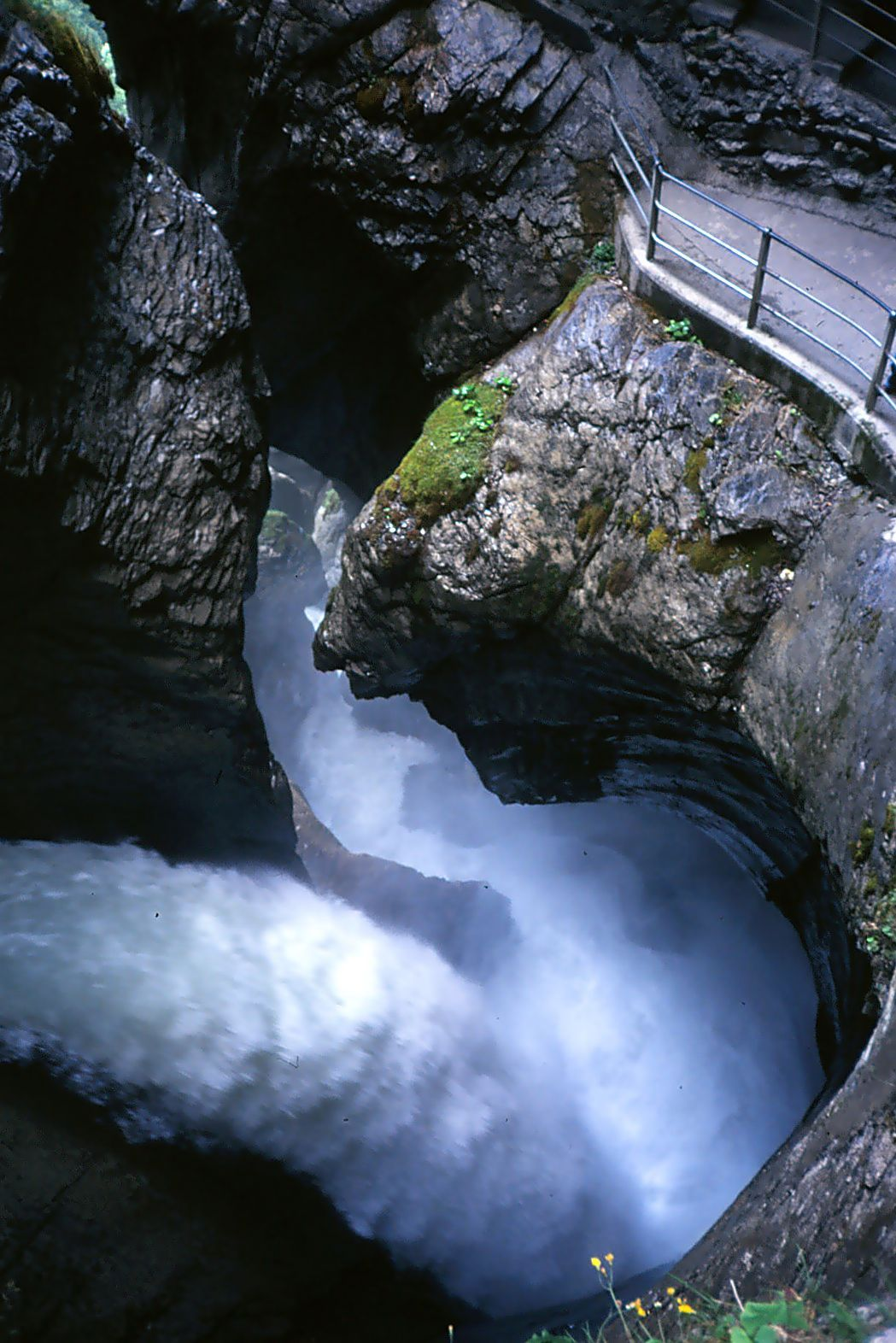 Trümmelbachfälle in Lauterbrunnental, Switzerland. June 1998